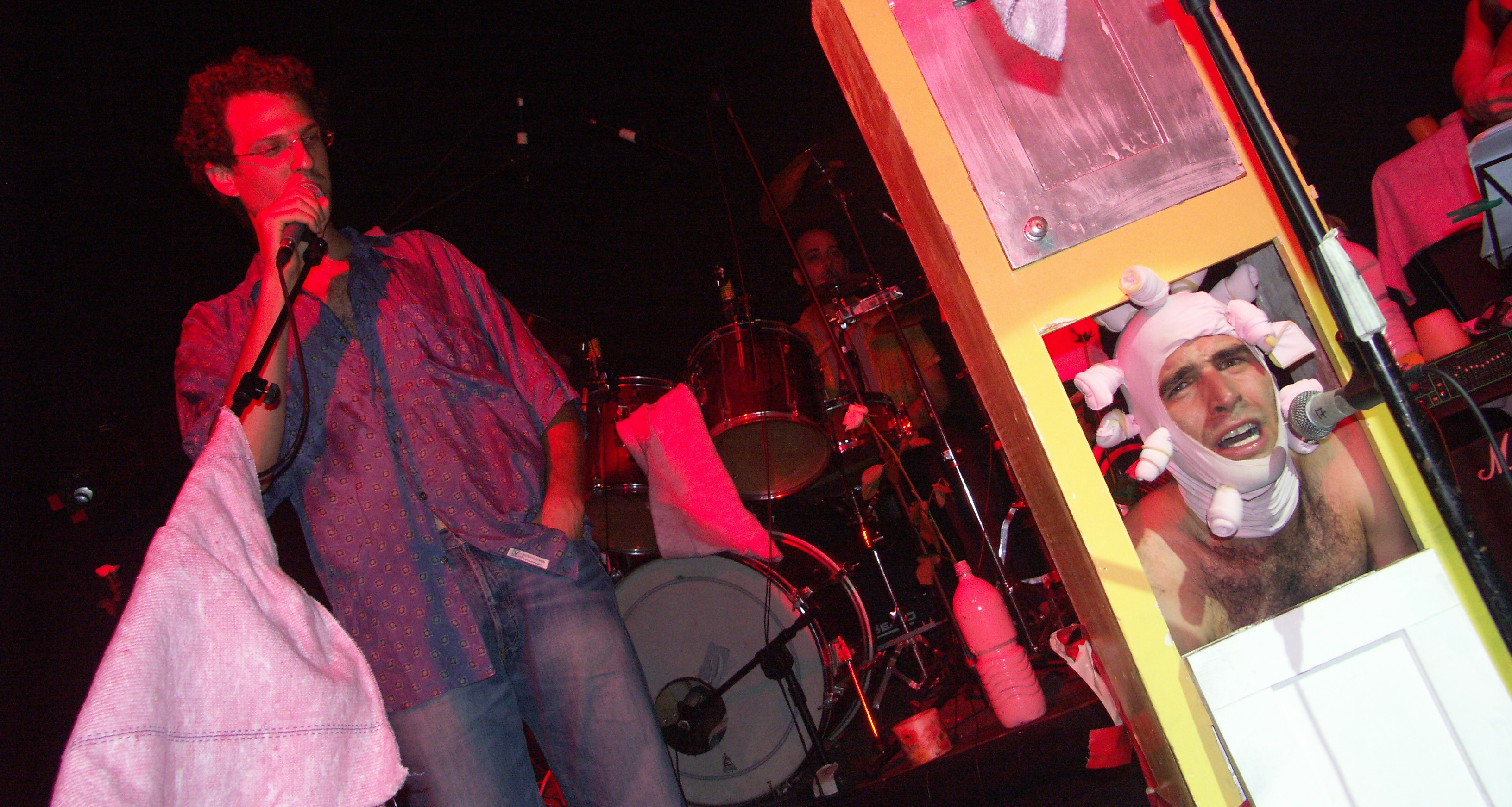 Hot Fur Ensemble: Lior Frenkel and the Hamtitz character. Pictured by me and the Koltura music club on 2005-06-25.